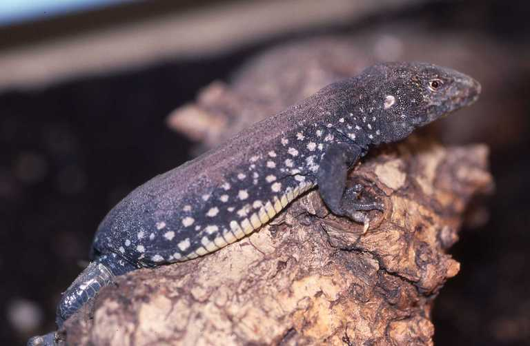 St Lucia Whiptail (Cnemidophorus vanzoi) at the Jersey Zoo